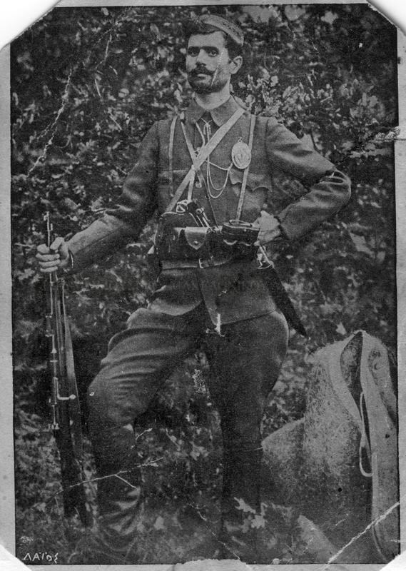 Vasilios Tsimbidaros